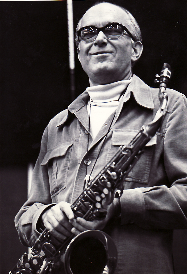 Fraser MacPherson